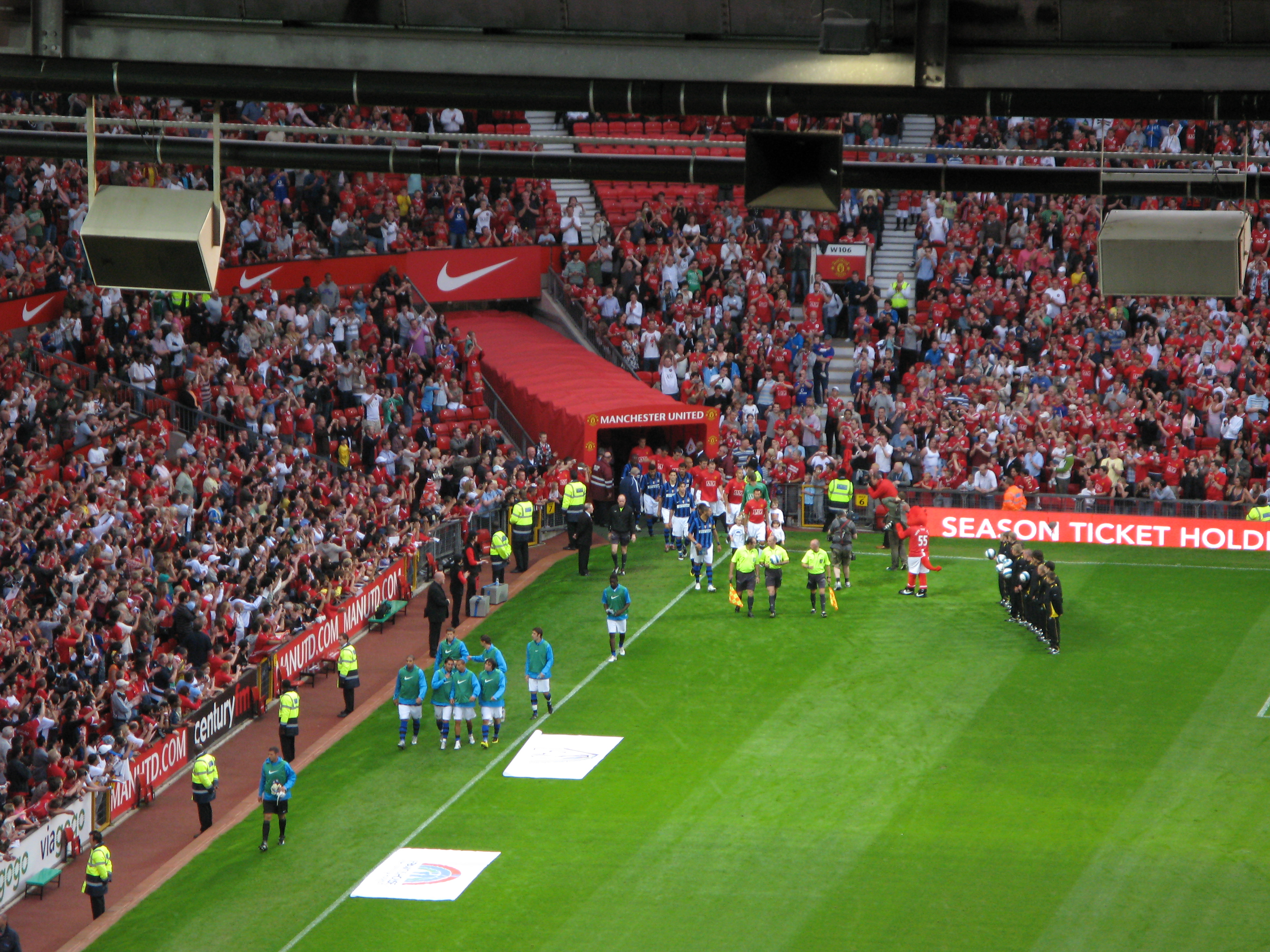 Old Trafford 1/08/07 Pre Season Friendly v Inter Milan